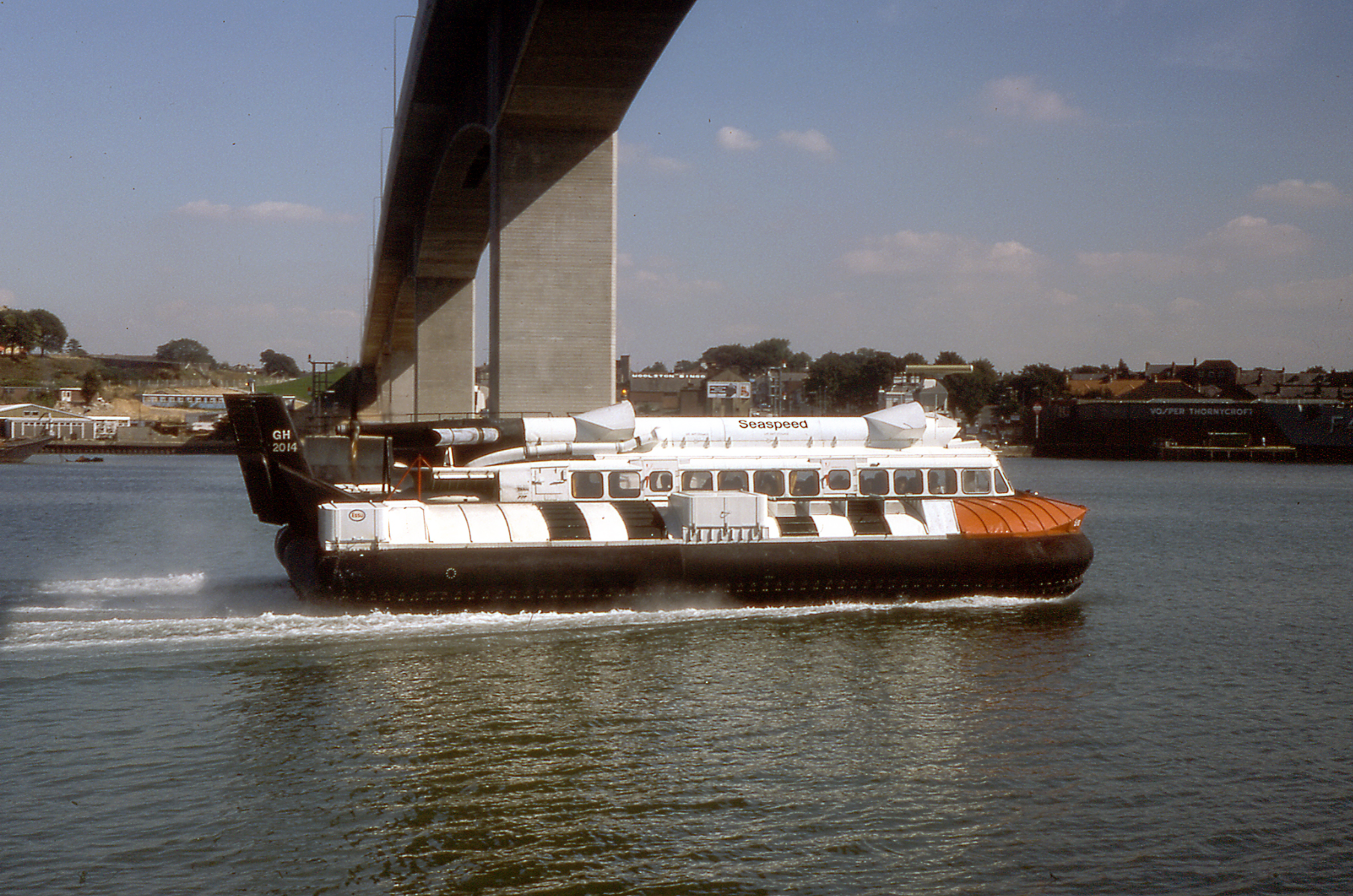 SRN6 GH2014 Sea Hawk passing under the Itchen Bridge. Scanned from a Kodachrome 35mm slide.